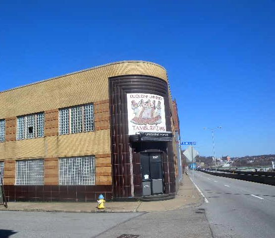 Looking east at Tamburitzans building at 1801 Blvd of the Allies on a sunny early afternoon.